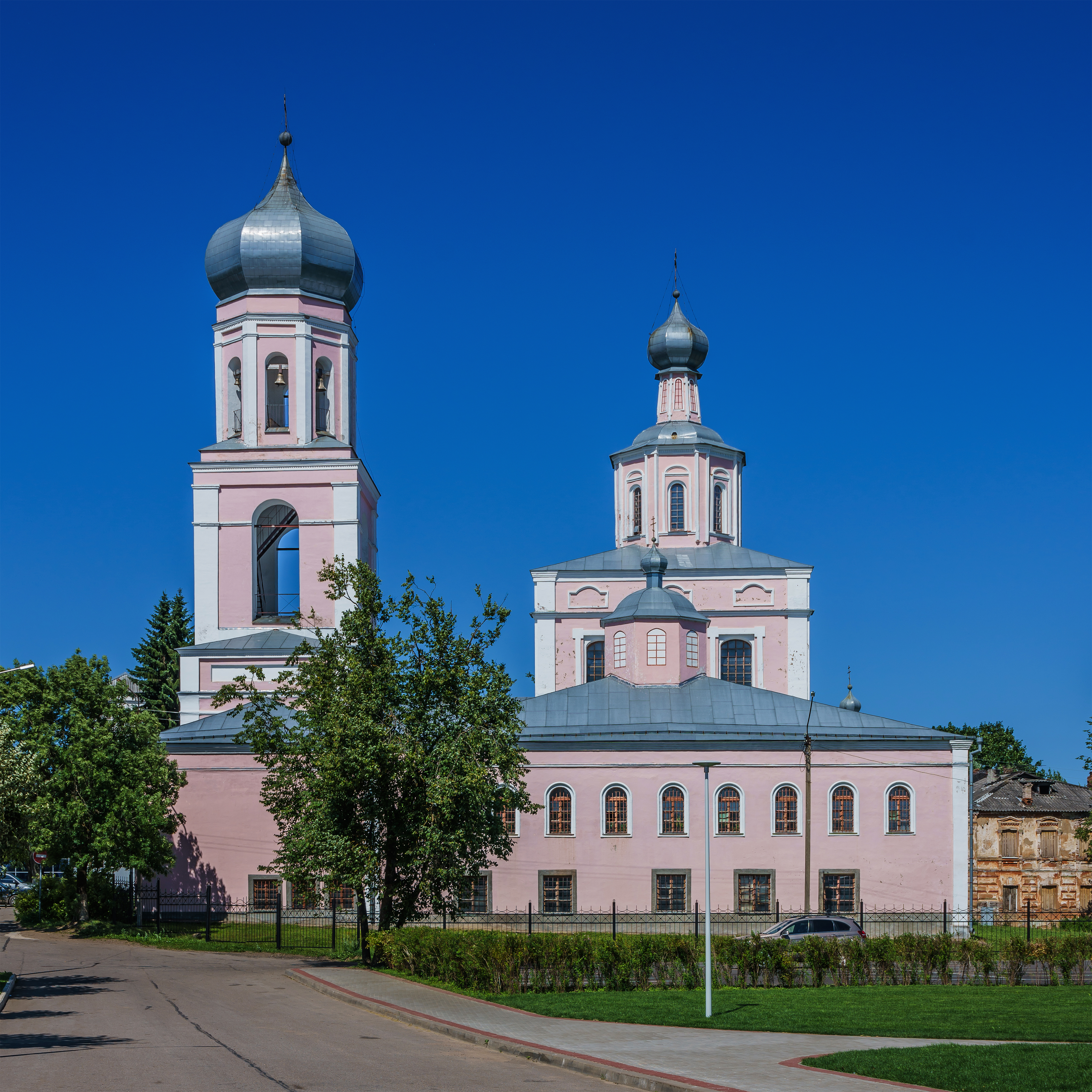 Holy Trinity Cathedral in Valdai, Novgorod Oblast, Russia